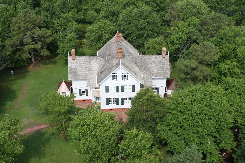 Keeper´s house at Currituck Beach Light in Corolla, North Carolina, USA